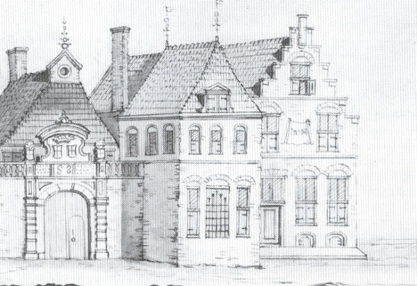 Gruitersmastins Sneek 1723